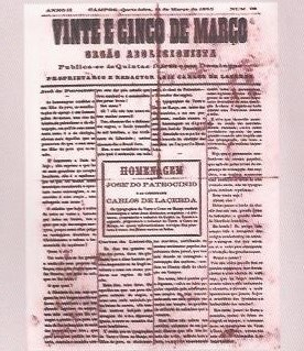 Capa do jornal Vinte e Cinco de Março de 11 de março de 1885.